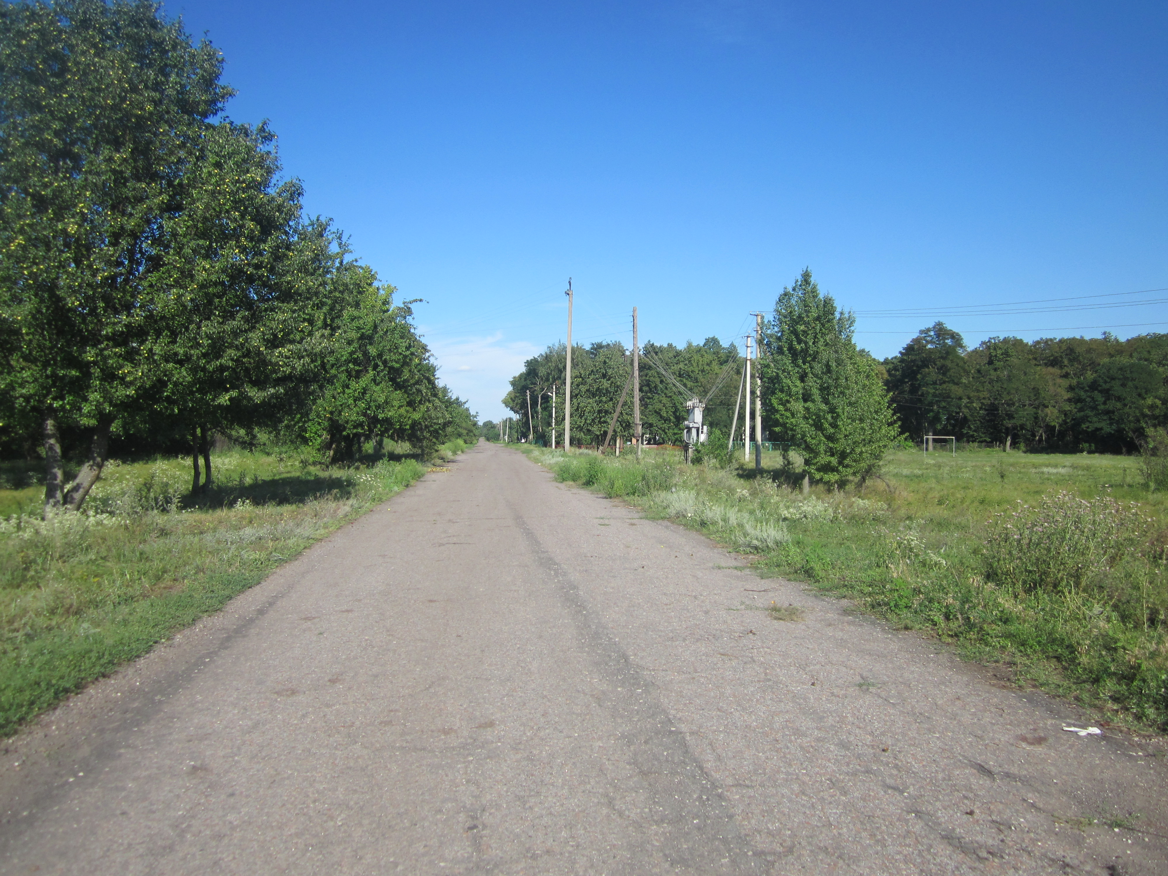 Entrance to the village